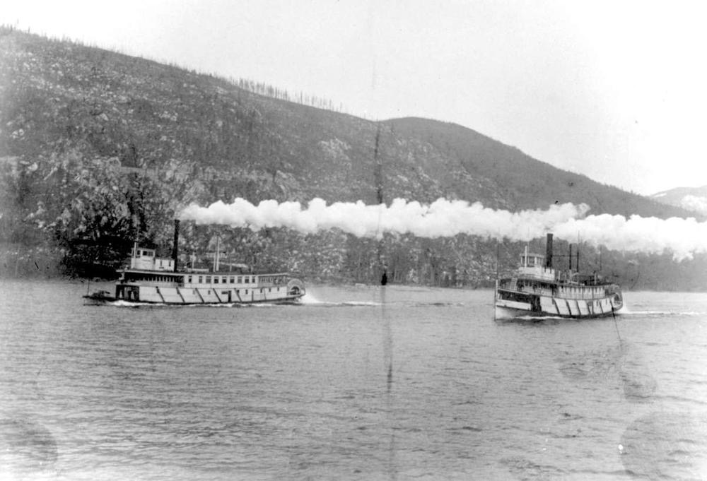 International (left) racing Kokanee (right), on Kootenay Lake. Probably in late 1896 or in 1897, but not later than 1909.